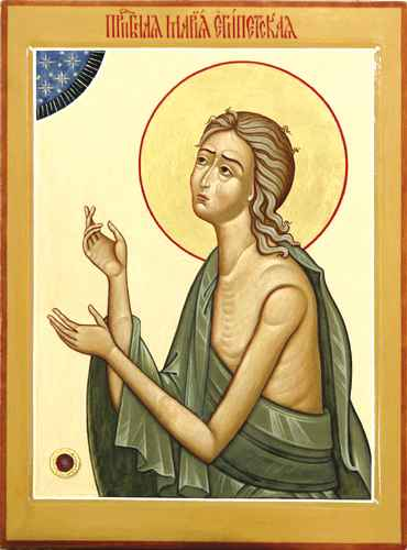 Mary of Egypt (ortodox icon)